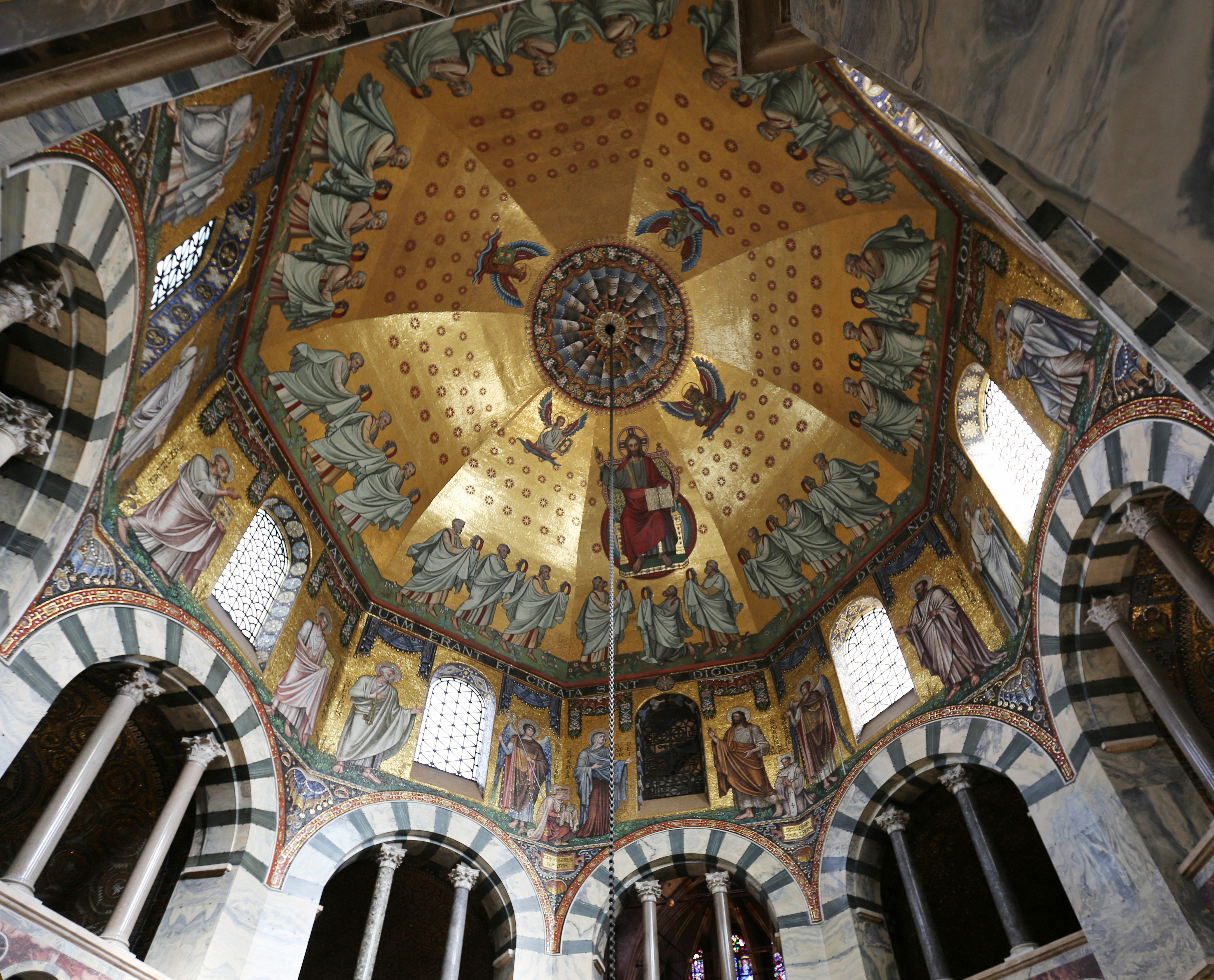 Dome of palatine chapel in Aachen Cathedral